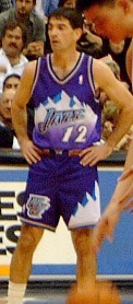 John Stockton awaits while Yao Ming shoots a free throw.